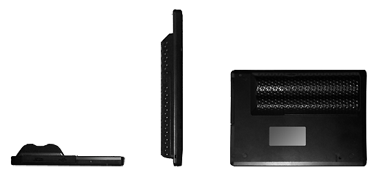 jetBook lite from different sides